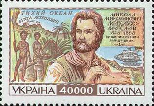 Ukrainian stamp commemorating 150 years from the birth of Nicholas Miklouho-Maclay a traveller-explorer and human-rights campaigner of Ukrainian-German ethnicity.